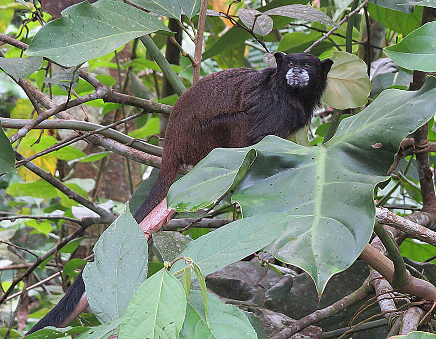 Graell's Tamarin in the the Sacha Lodge Reserve in eastern Ecuador.